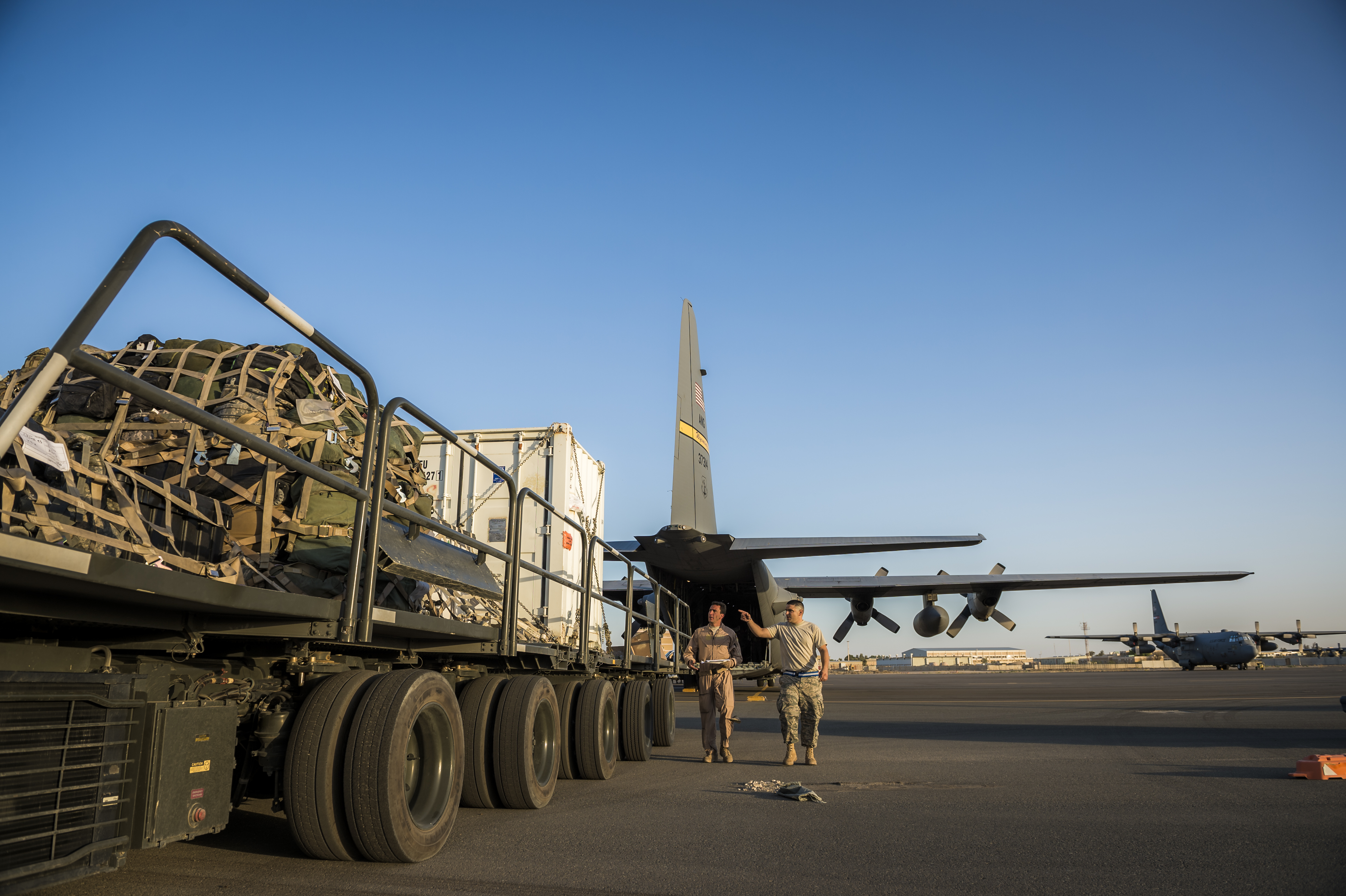 U.S. Air Force Master Sgt. Scott Francesangeli, 737th Expeditionary Airlift Squadron C-130H loadmaster, inspects cargo about to be loaded onto a C-130H Hercules July 20, 2014, at an undisclosed location in Southwest Asia. Loadmasters ensure all cargo and personnel to be transported on a plane are secured and properly placed to ensure the plane can safely fly. Francesangeli deployed here from the 910th Airlift Wing, Youngstown Air Reserve Station, Ohio, in support of Operation Enduring Freedom. (U.S. Air Force photo by Staff Sgt. Jeremy Bowcock)